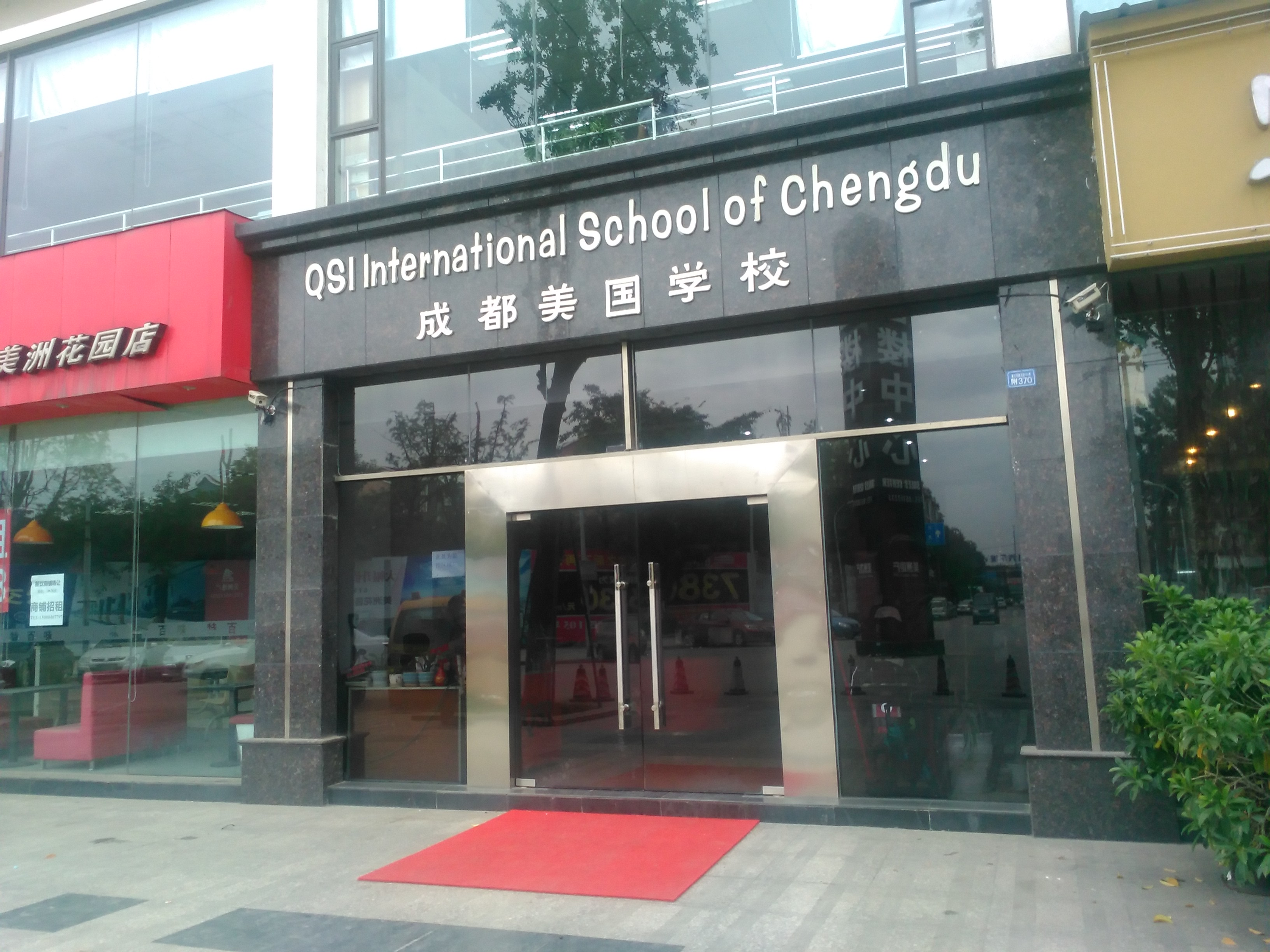 QSI International School of Chengdu office